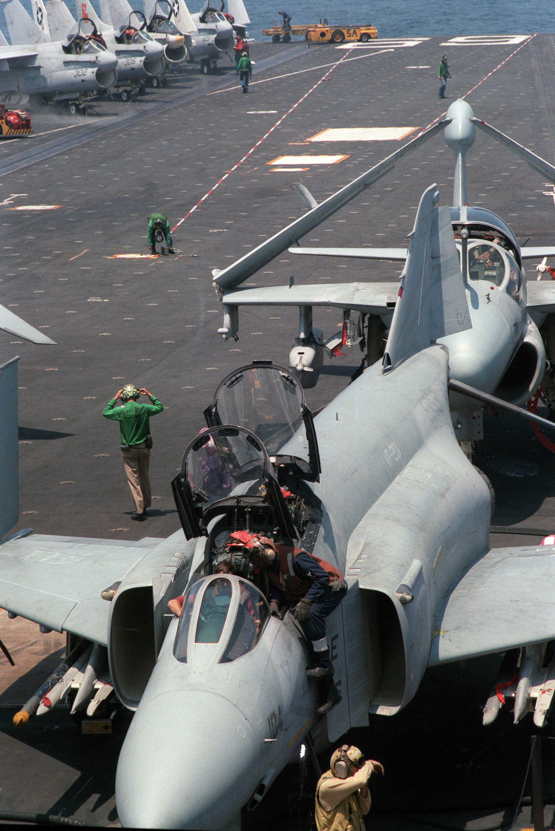 A U.S. Naval Reserve McDonnell Douglas F-4S Phantom II aircraft (BuNo 155858) from fighter squadron VF-201 Hunters on the flight deck of the nuclear-powered aircraft carrier USS Dwight D. Eisenhower (CVN-69) in 1985. Behind it is a Grumman EA-6A Intruder from tactical electronic warfare squadron VAQ-209 Star Warriors.